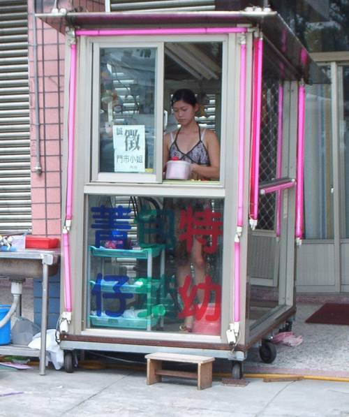 Betel nut girl in shop in Taiwan